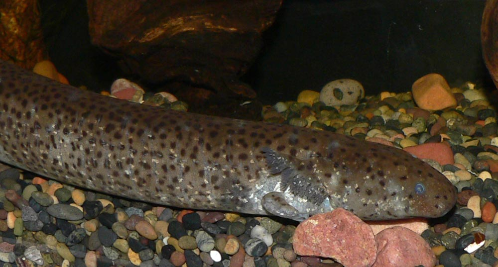 Siren intermedia (lesser siren) at Steinhart Aquarium in San Francisco